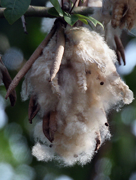 Kapok Ceiba pentandra in Kolkata, West Bengal, India.